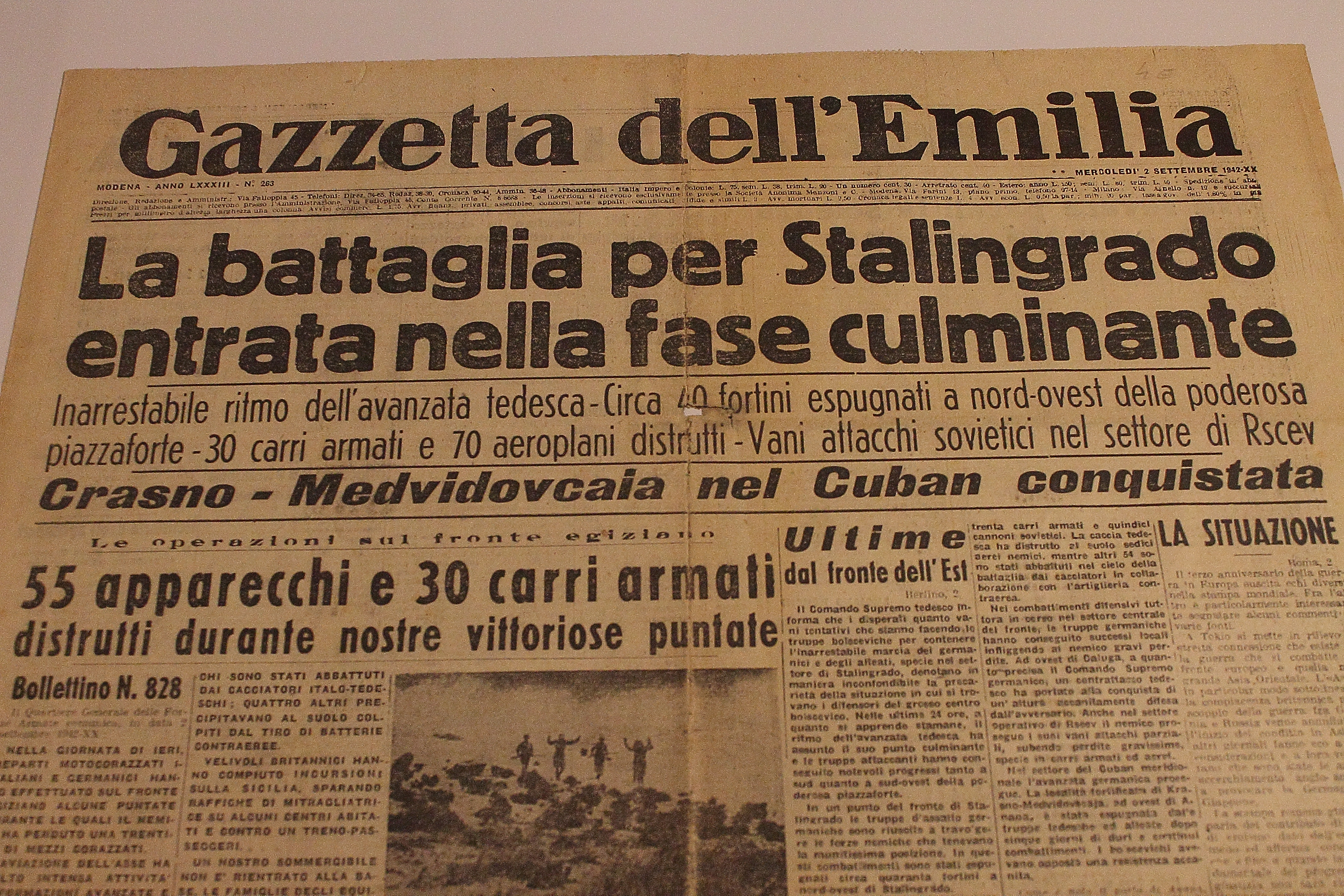 Gazzetta dell'Emilia - 2-Sep-1942 - Italian journal on Stalingrad battle